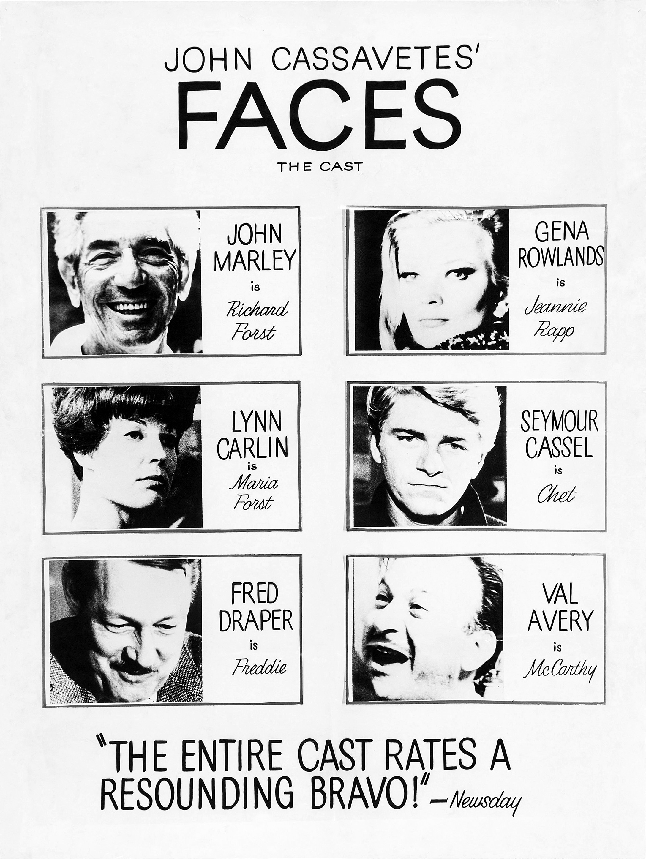 Alternate theatrical release poster for John Cassavetes's 1968 film Faces (1968 film), featuring the cast.